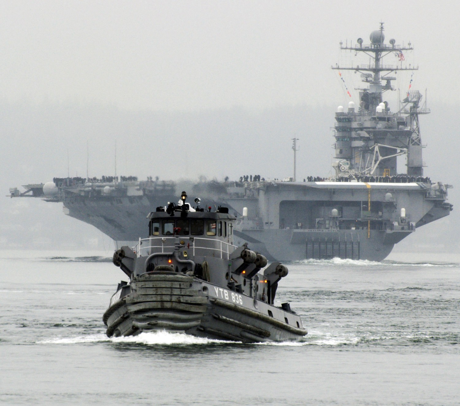 Pokagon (YTB 836) returns to the pier as the Nimitz-class aircraft carrier USS Abraham Lincoln (CVN-72) departs Naval Station Everett, WA. for a scheduled deployment to the 5th Fleet area of responsibility. US Navy photo # 080313-N-8029B-038 EVERETT, Wash. (Mar. 13th, 2008) by MC2 Jason Beckjord.